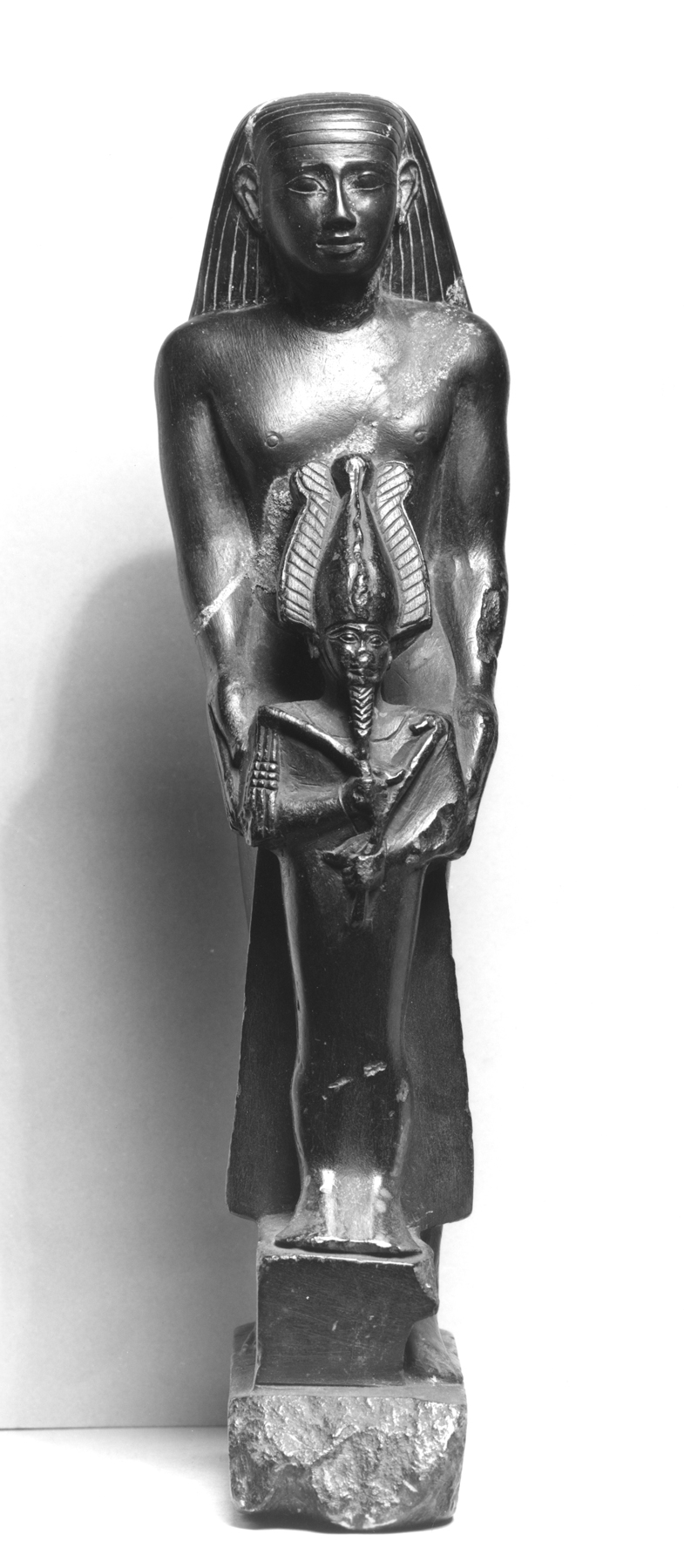 The statue represents the charioteer Psametik-mry-Re. He stands holding a large figure of the god Osiris, Lord of the Underworld. Such "Osirophorus" figures were popular during the Egyptian Late Period (7th-4th century BC). They were placed in temples to guarantee the participation of the person depicted in the rituals for the gods.